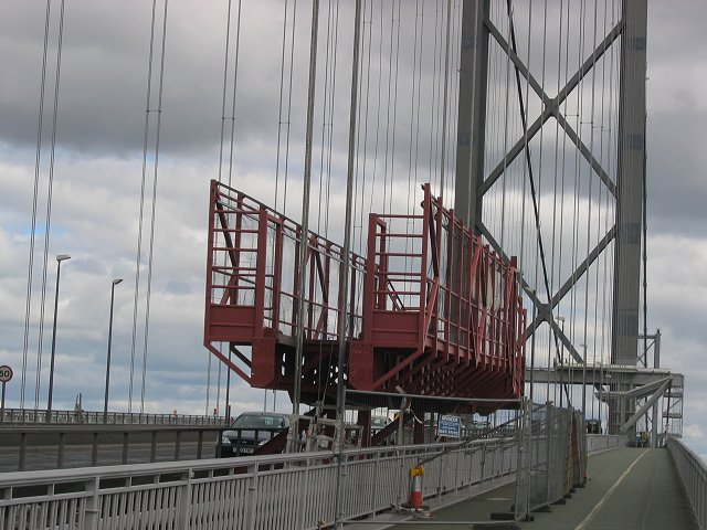 Cable inspection cradle on the Forth Road Bridge